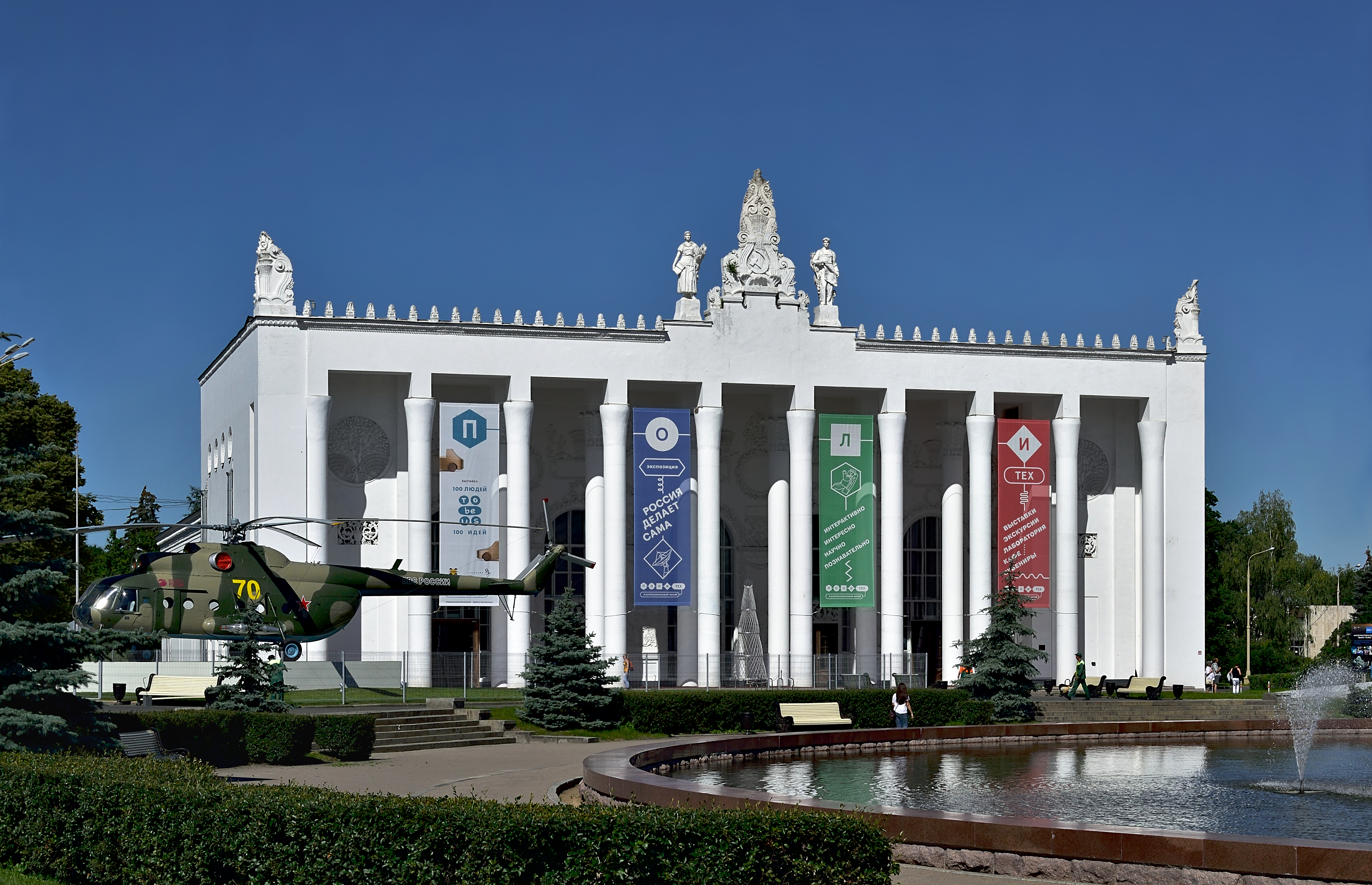 Moscow. VDNKh (the Exhibition of Achievements of the National Economy). Pavilion No. 26 Transport of the USSR. 1937, reconstructed in 1954. A transport helicopter Mil Mi-8T is exhibited before the pavilion, on the left. A photo from the user collection VDNKh.